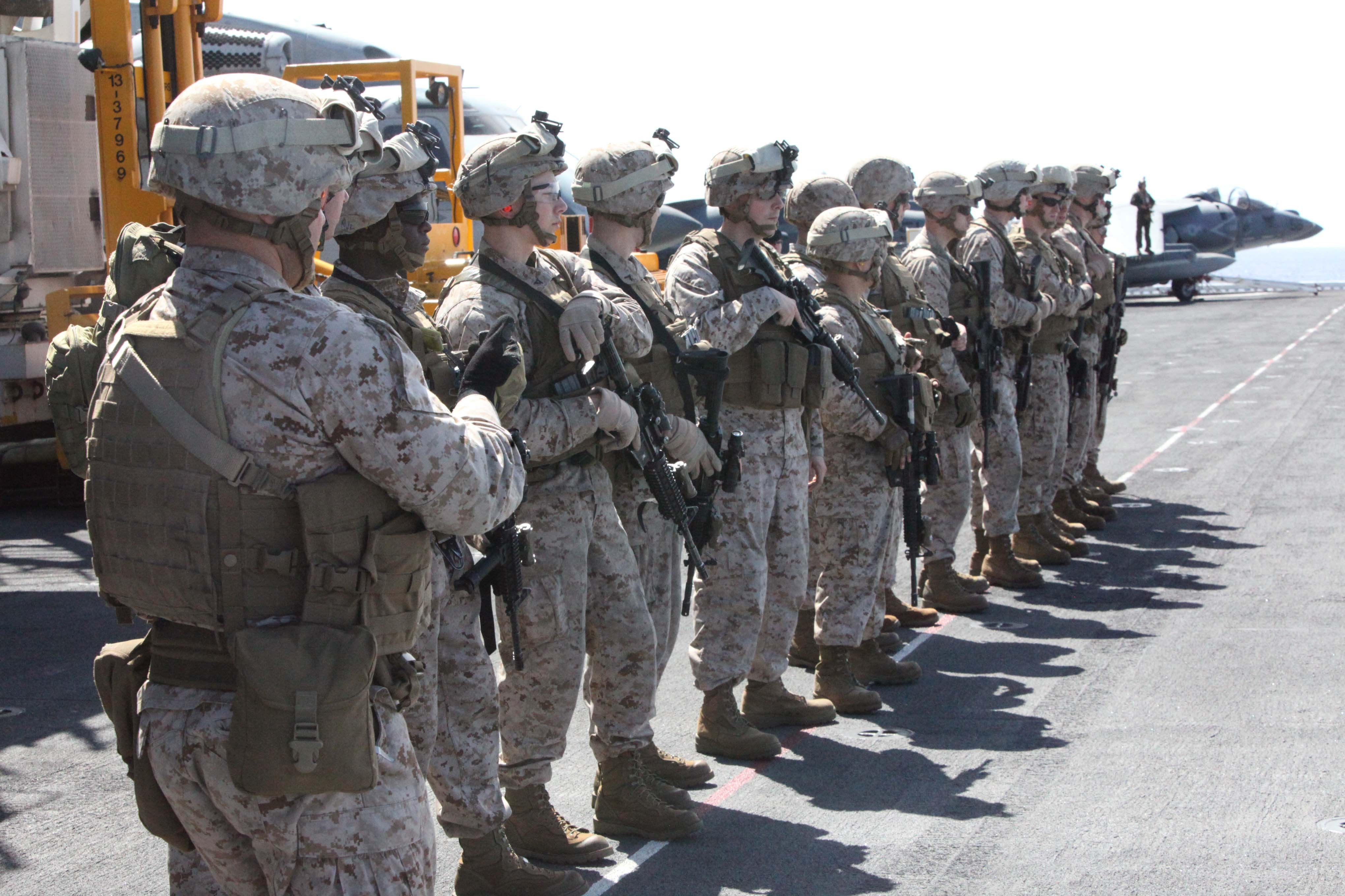 Marines with Bravo Company, Battalion Landing Team, 1st Battalion, 2nd Marine Regiment, 24th Marine Expeditionary Unit, fire at targets during a live-fire training exercise, to confirm their windage and elevation settings, also known as battle site zero, on the ship's flight deck as they sail across the Atlantic Ocean, April 4, 2012. The 24th MEU, partnered with the Navy's Iwo Jima Amphibious Ready Group, is deploying to the European and Central Command theaters of operation to serve as a theater reserve and crisis response force capable of a variety of missions from full-scale combat operations to humanitarian assistance and disaster relief.